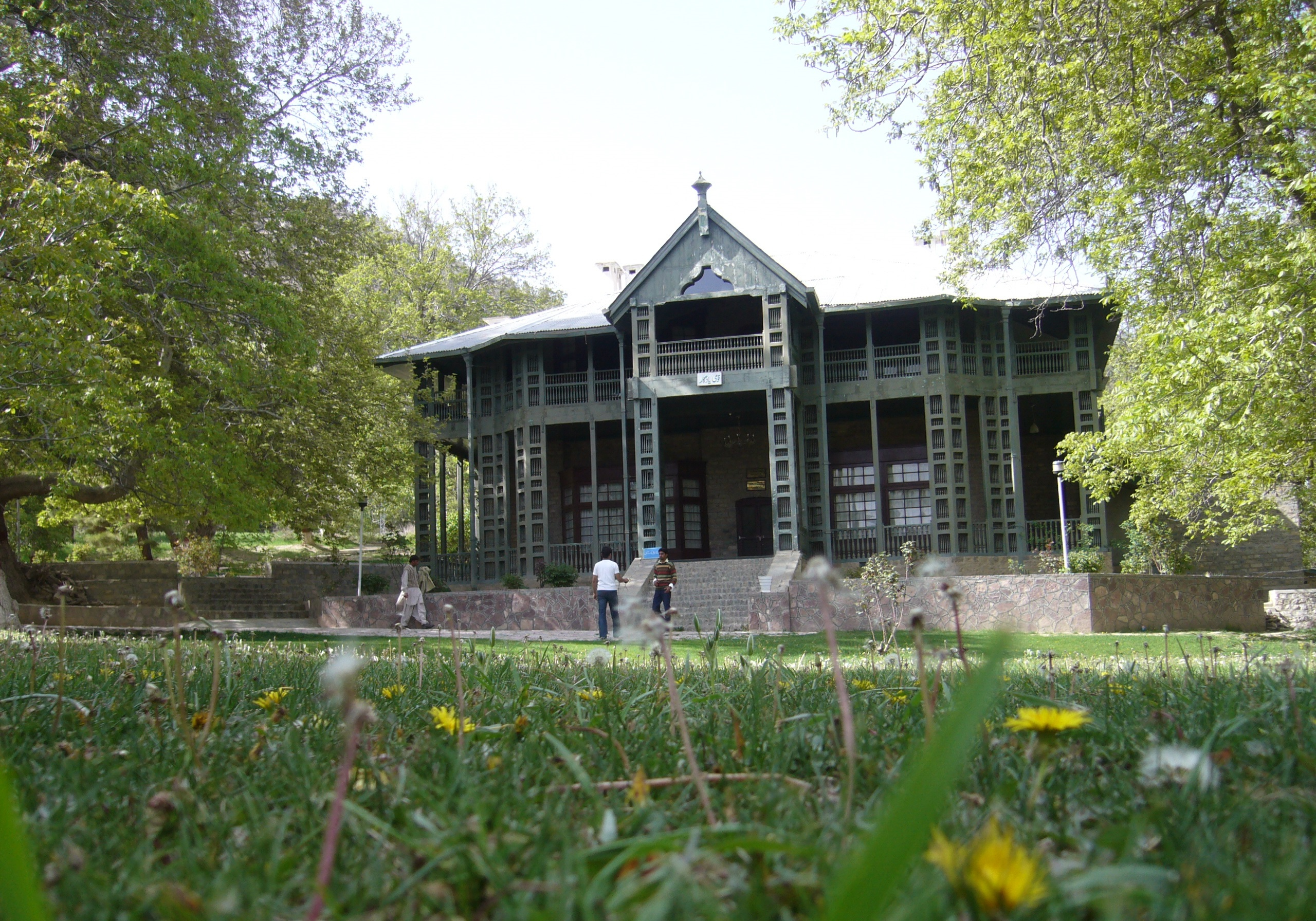 Ziarat Residency Also known as Quaid e Azam Residency, where Quaid e Azam Muhammad Ali Jinnah spent his last days of his life. in Addition as this picture was taken before the attack, which was occurred on 15 of June 2013